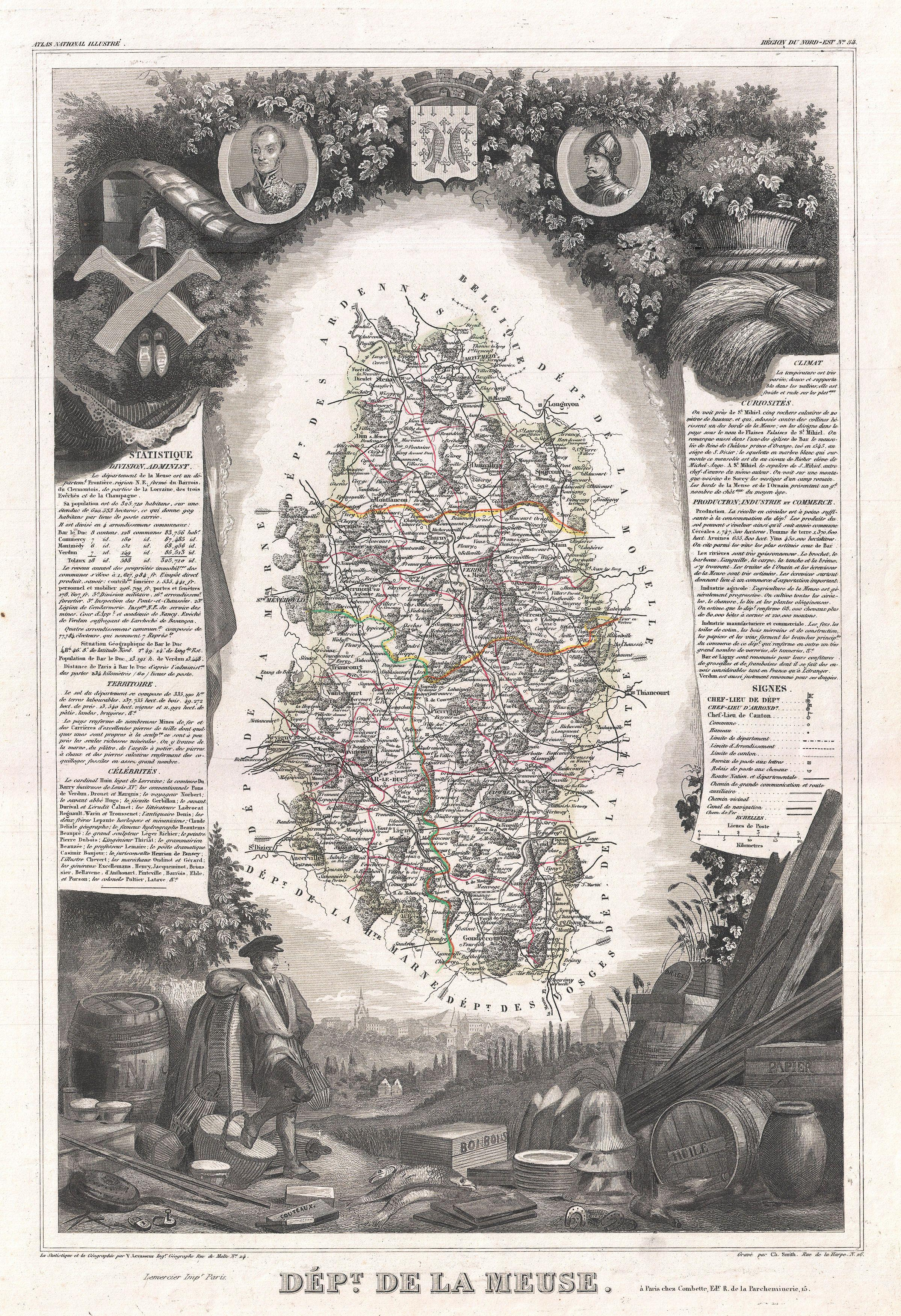 This is a fascinating 1852 map of the French department of Meuse, France. This area part of the Lorraine or Alsace-Lorraine wine regions. It is also known for its production of Brie de Meaux cheeses. In fact, more than 60% of Brie de Meaux production takes place in this region. The map proper is surrounded by elaborate decorative engravings designed to illustrate both the natural beauty and trade richness of the land. There is a short textual history of the regions depicted on both the left and right sides of the map. Published by V. Levasseur in the 1852 edition of his Atlas National de la France Illustree.